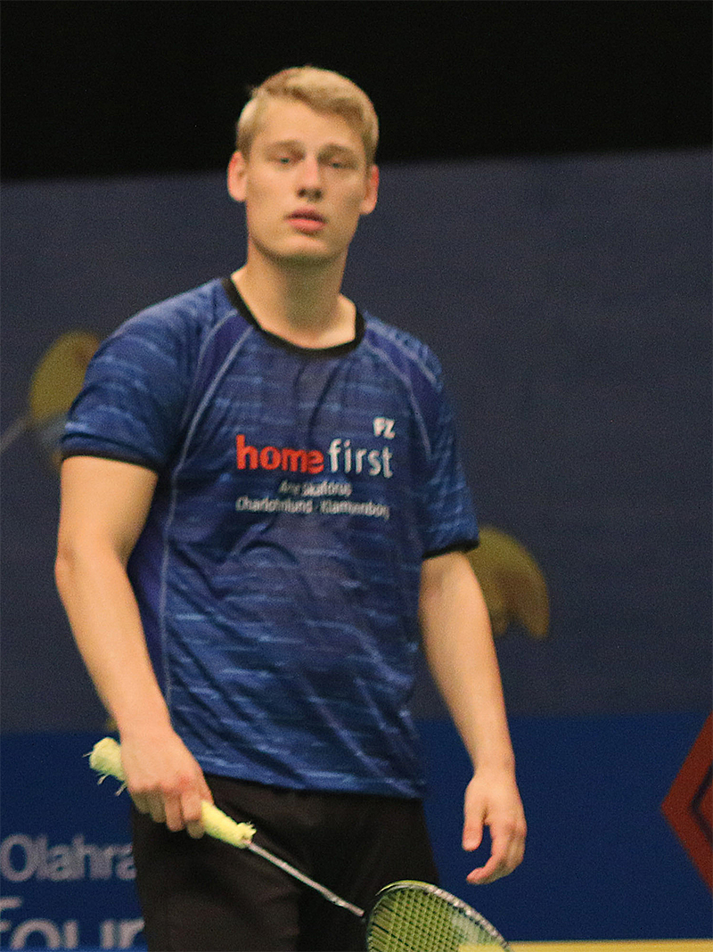 David Daugaard at Indonesia Open 2017 badminton tournament